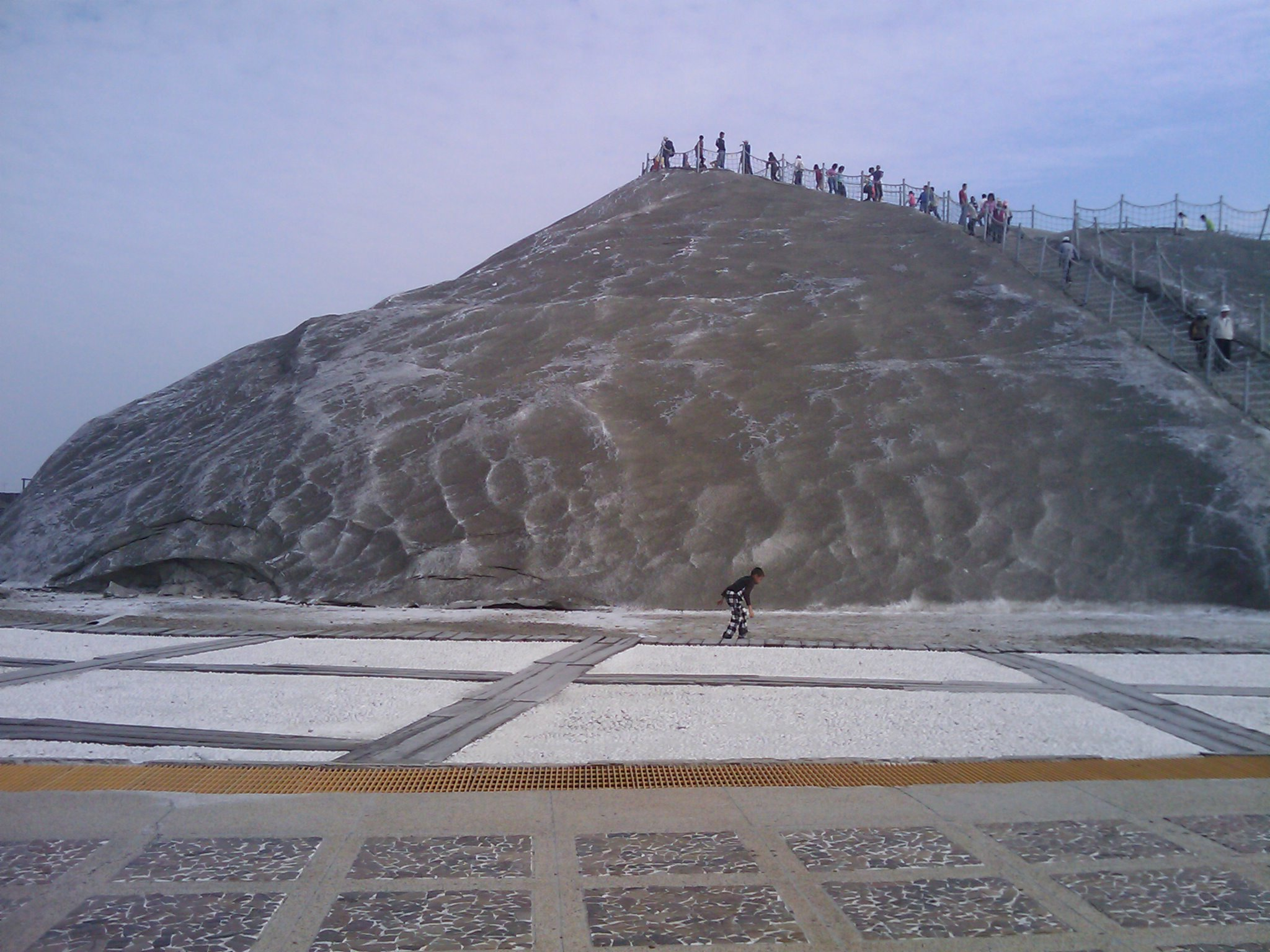 Salt Mountain in Cigu, Tainan